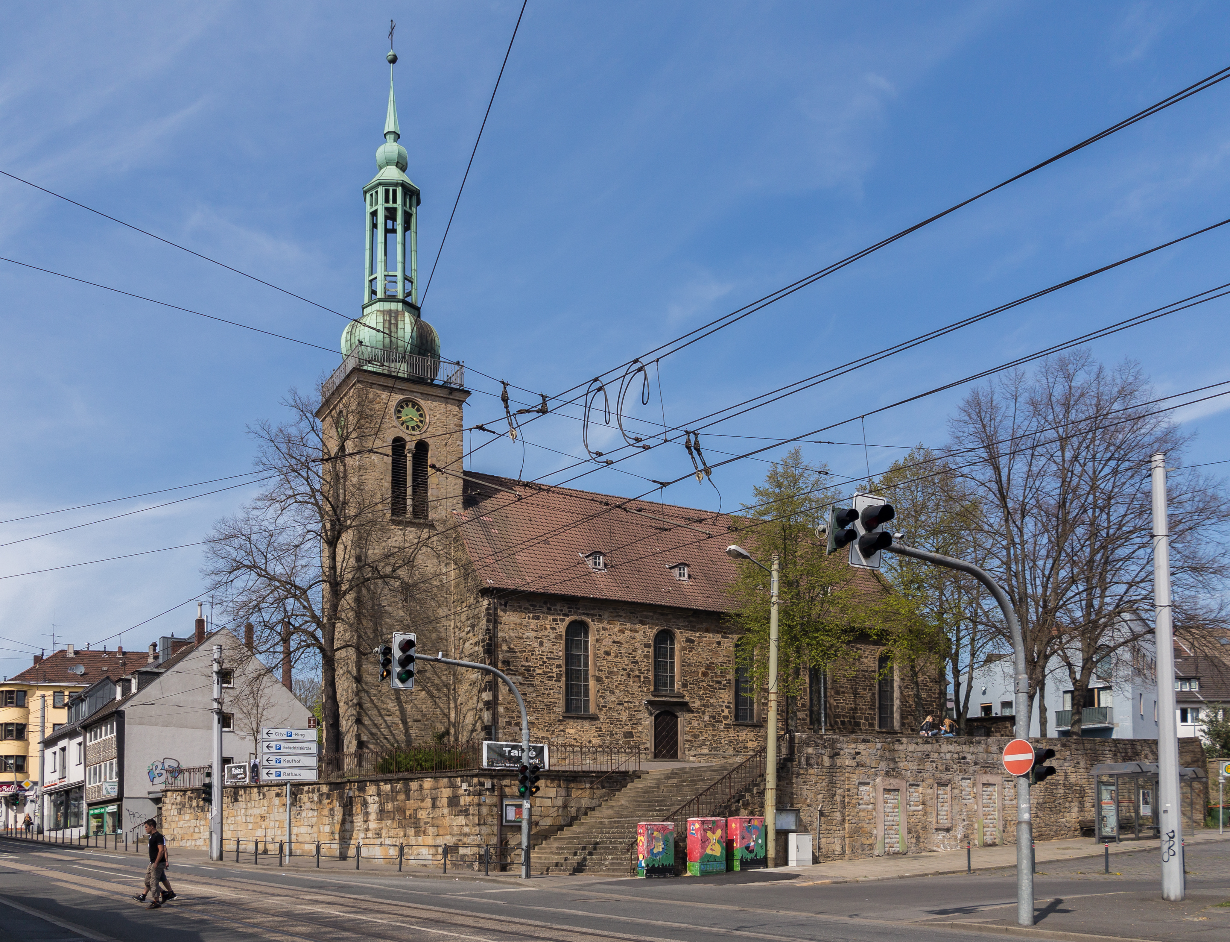 The Lutheran John's Church in Witten, Germany